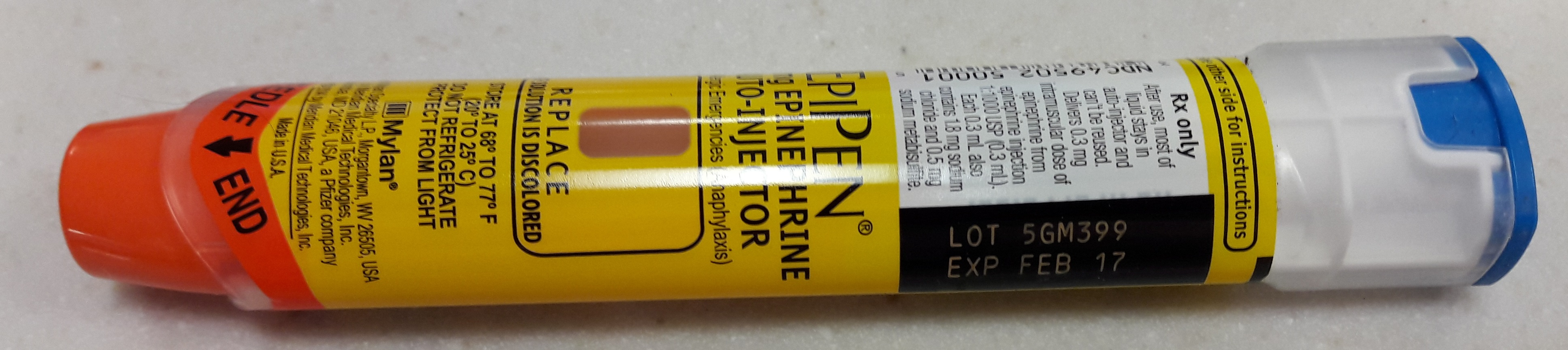 This is a picture of an Epi-Pen acquired in 2016 and is the latest version in the USA that I am aware of as of the upload date.